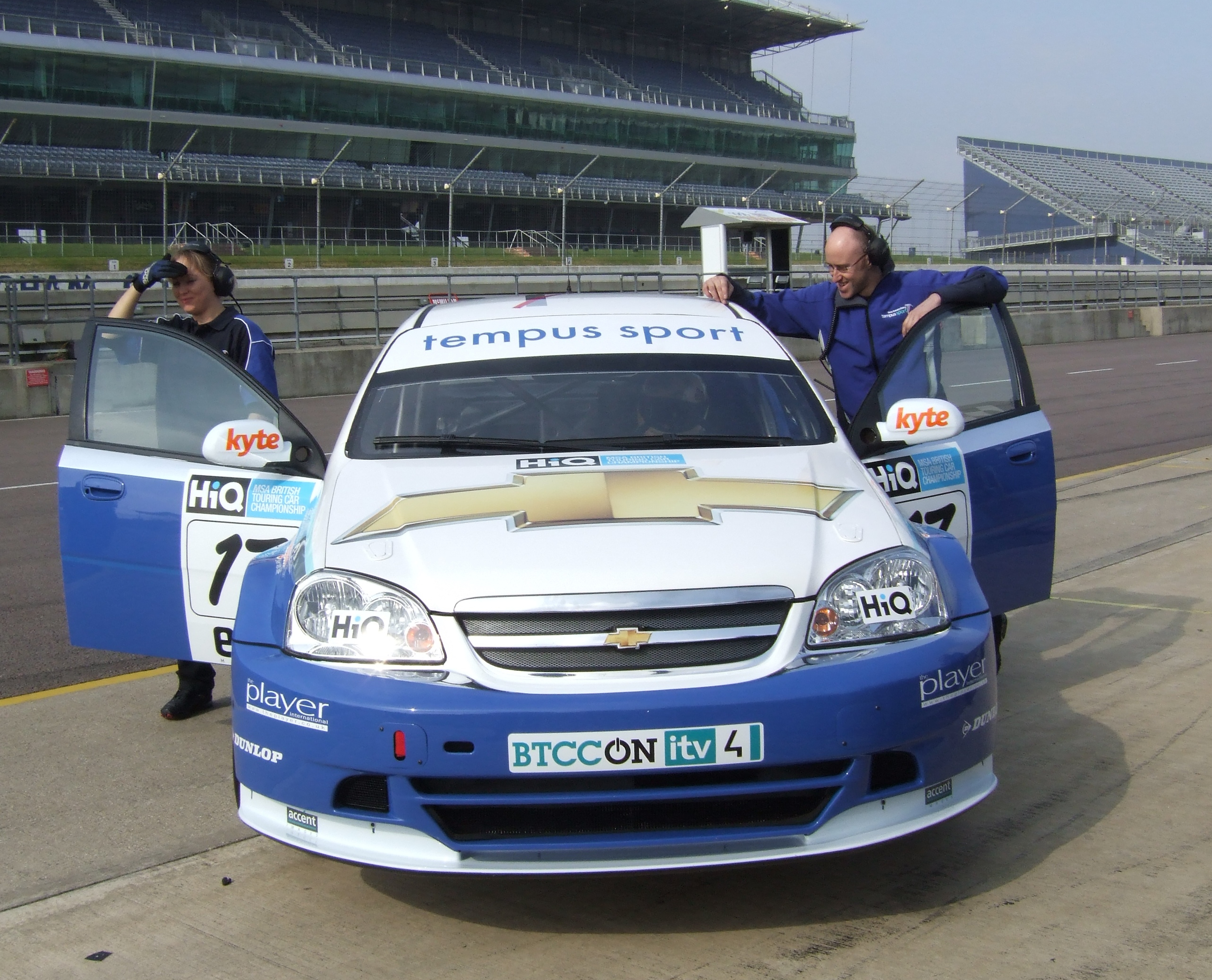 From BTCC Media Day held at Rockingham Speedway. Ex Roberstshaw Racing Chevrolet Lacetti, now run by newly created Tempus Sport & driven by Harry Vaulkhard.